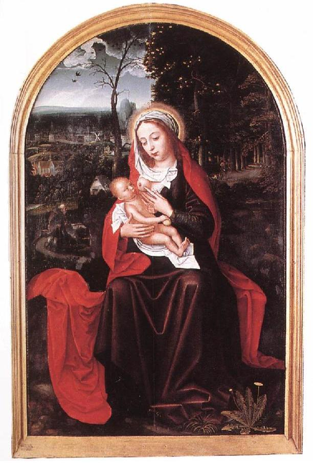 The Rest on The Flight into Egypt